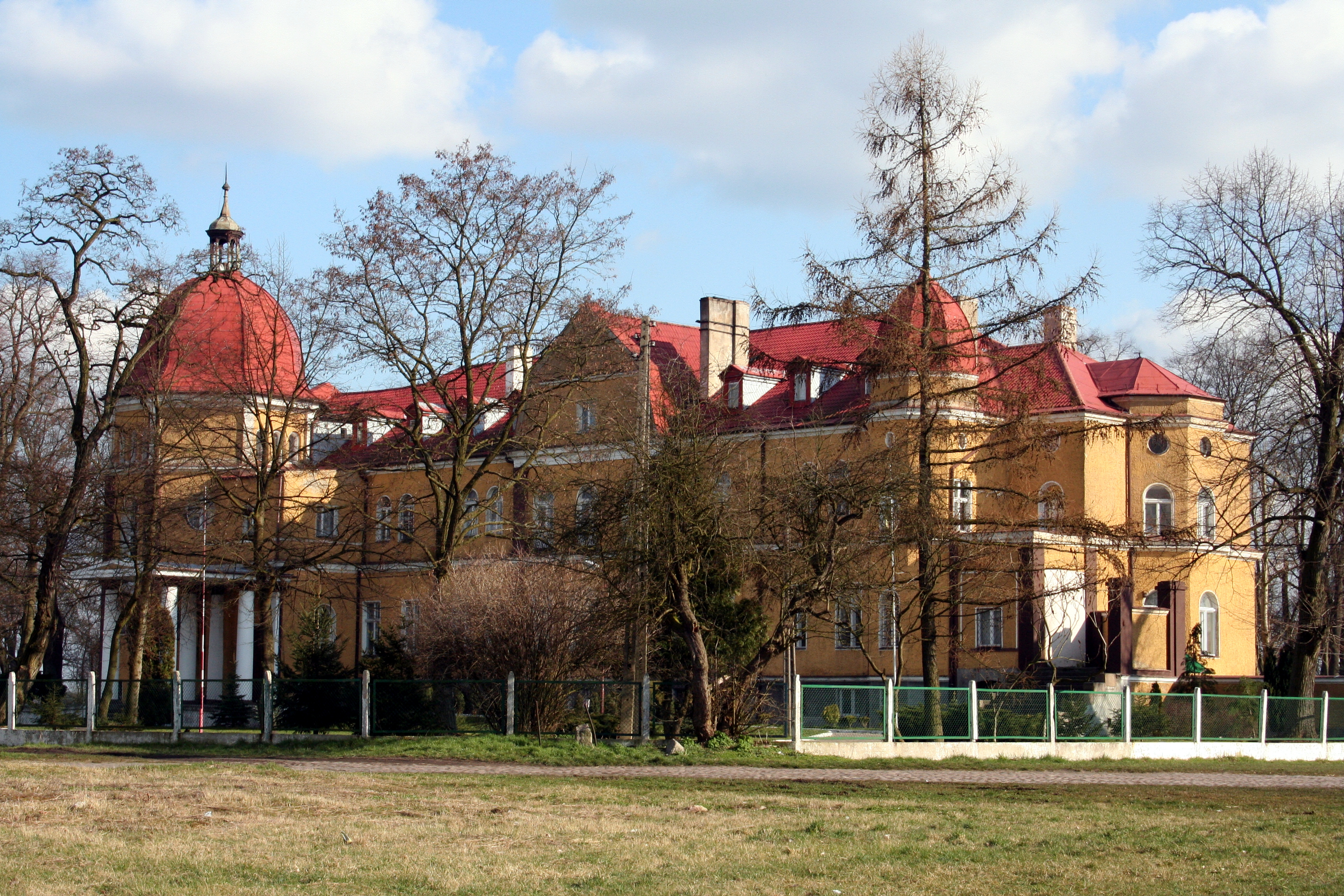 Smolnica palace, north facade